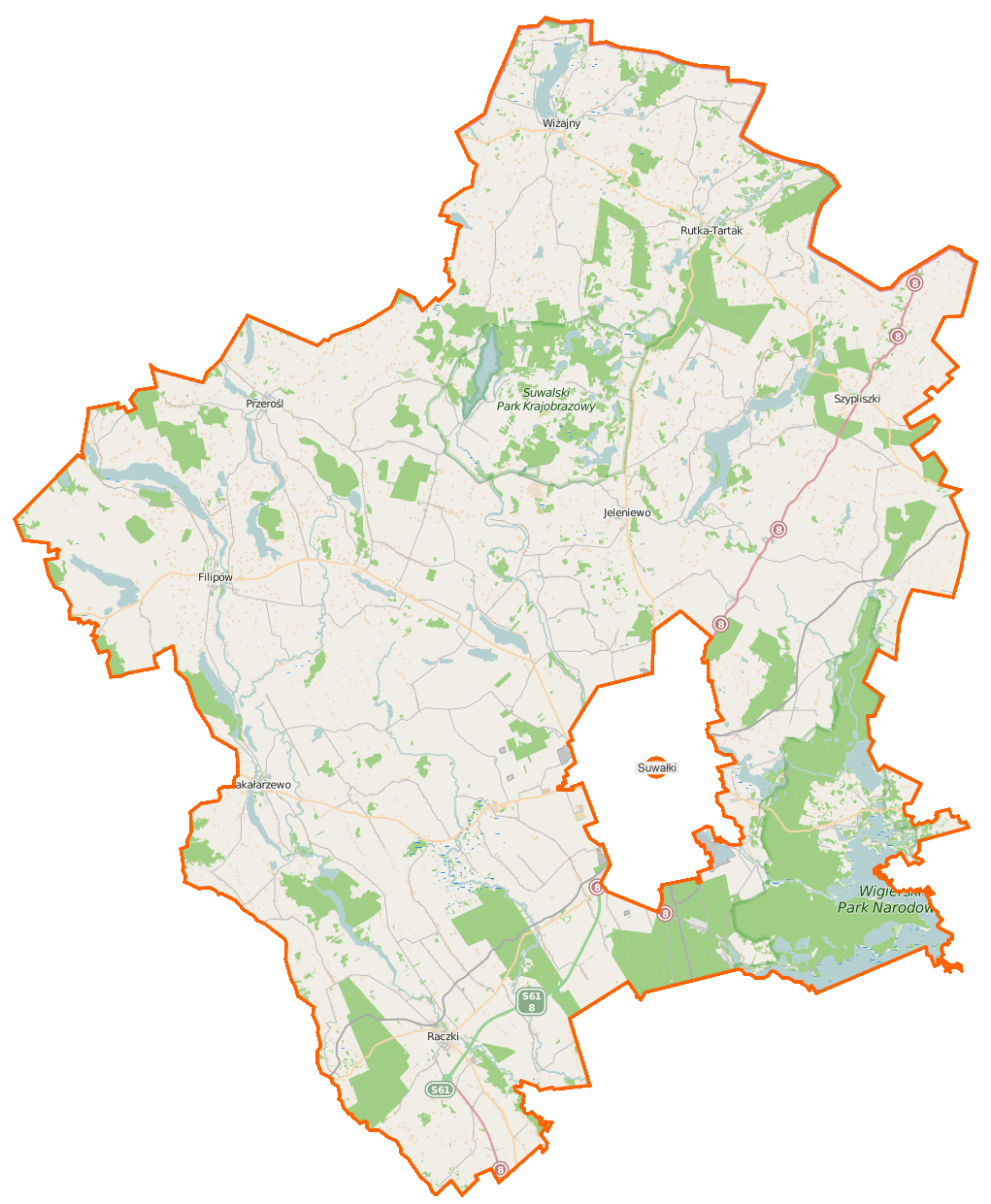 Map of Powiat suwalski, Poland This map of Powiat suwalski was created from OpenStreetMap project data, collected by the community. This map may be incomplete, and may contain errors. Don't rely solely on it for navigation.